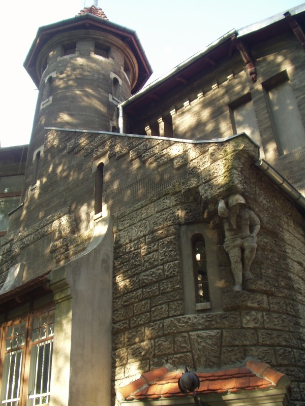 Leopold Kindermann villa, Lodz 31 Wólczańska Street